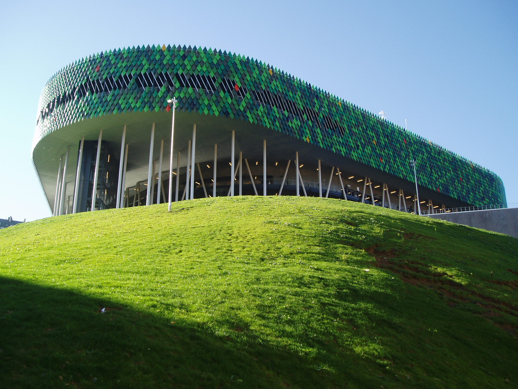 View of Bilbao Arena.